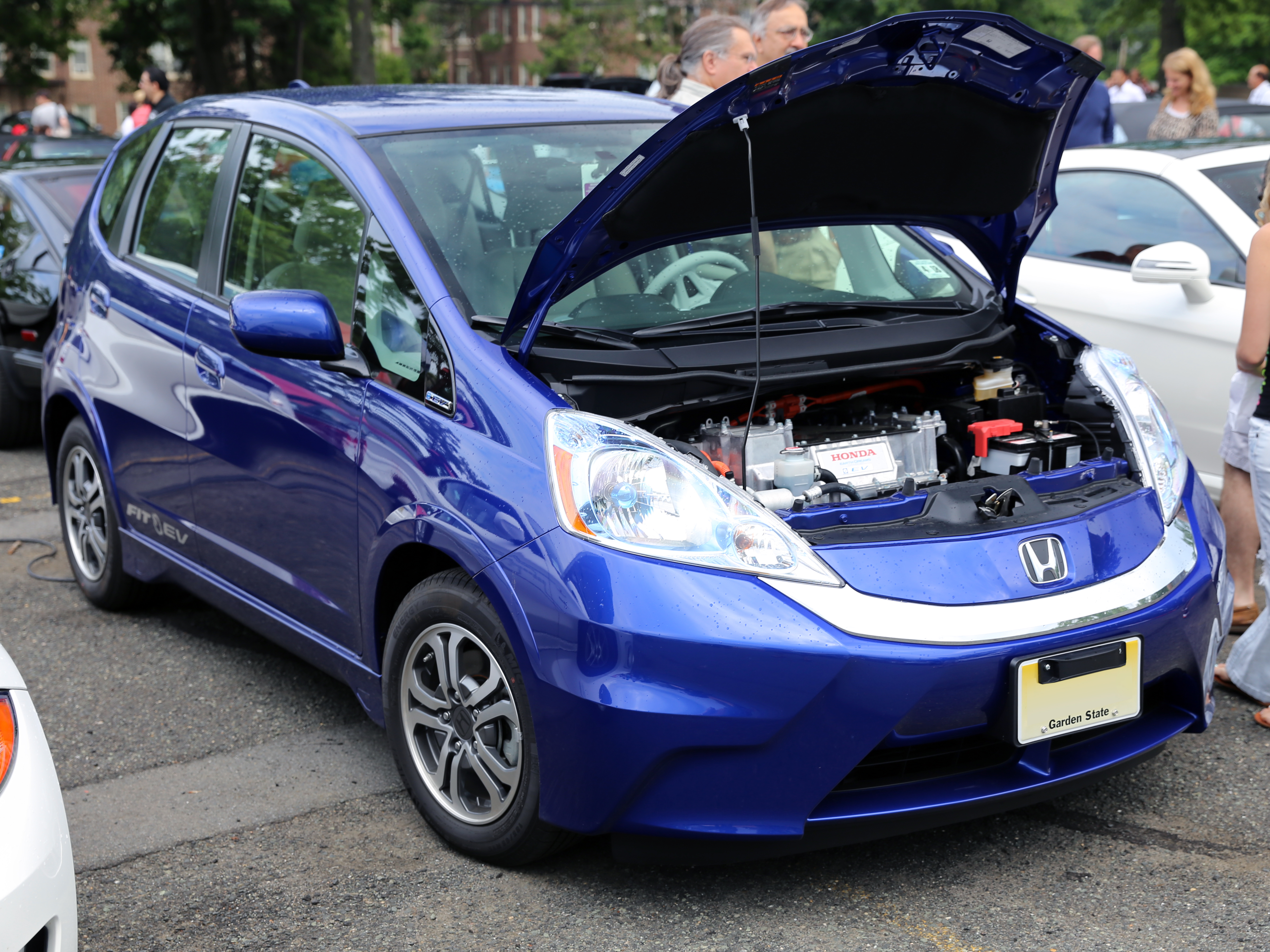 Honda Fit EV